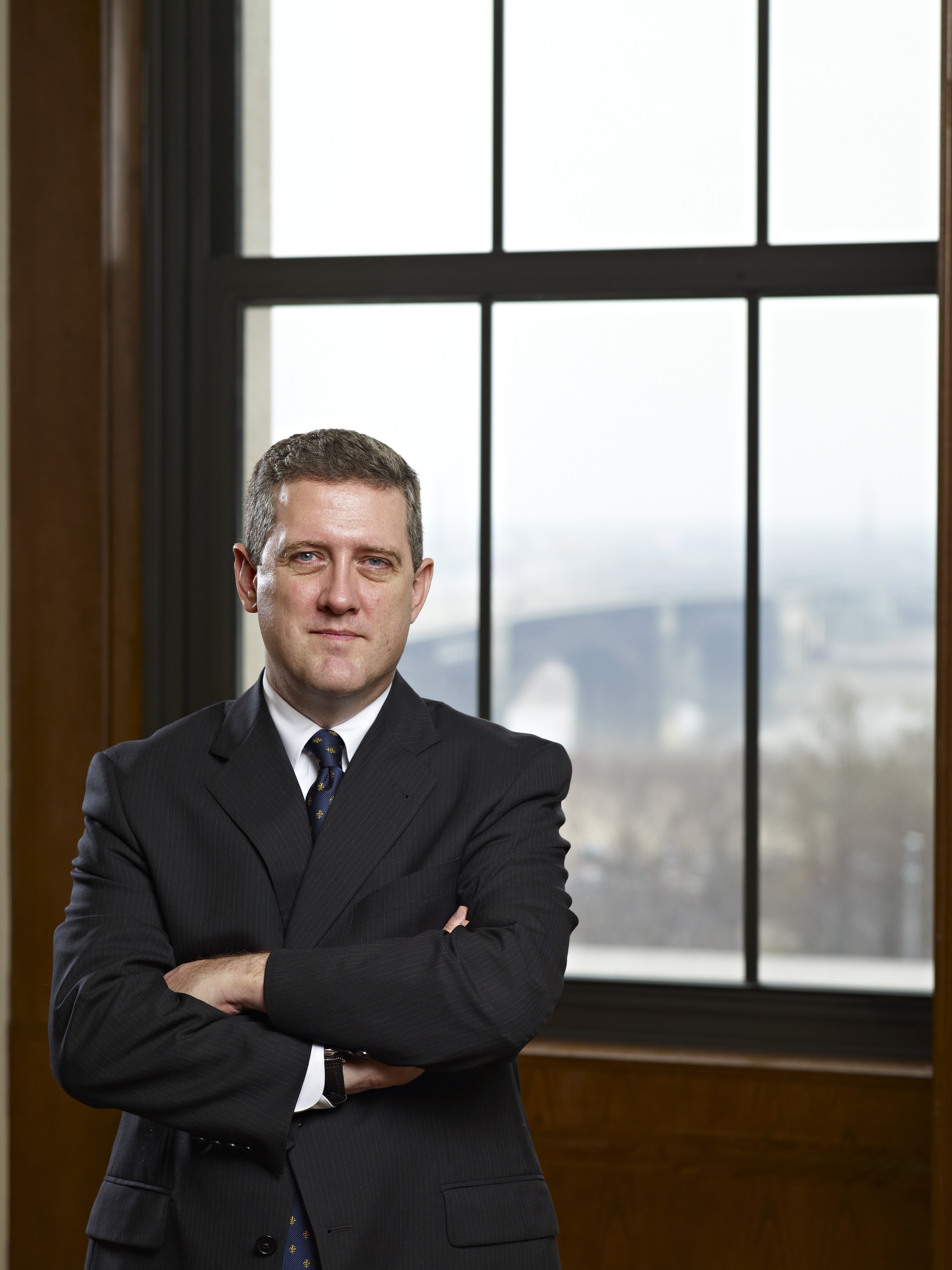 James Bullard, president of the Federal Reserve Bank of St. Louis